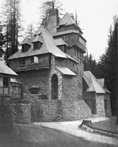 Photograph taken from a 1906 issue of American Homes and Gardens in an article titled "'Myntoon', a Mediaeval Castle in Shasta, California". The article describes Wyntoon, a mansion built in 1902 by Bernard Maybeck for Phoebe Hearst.